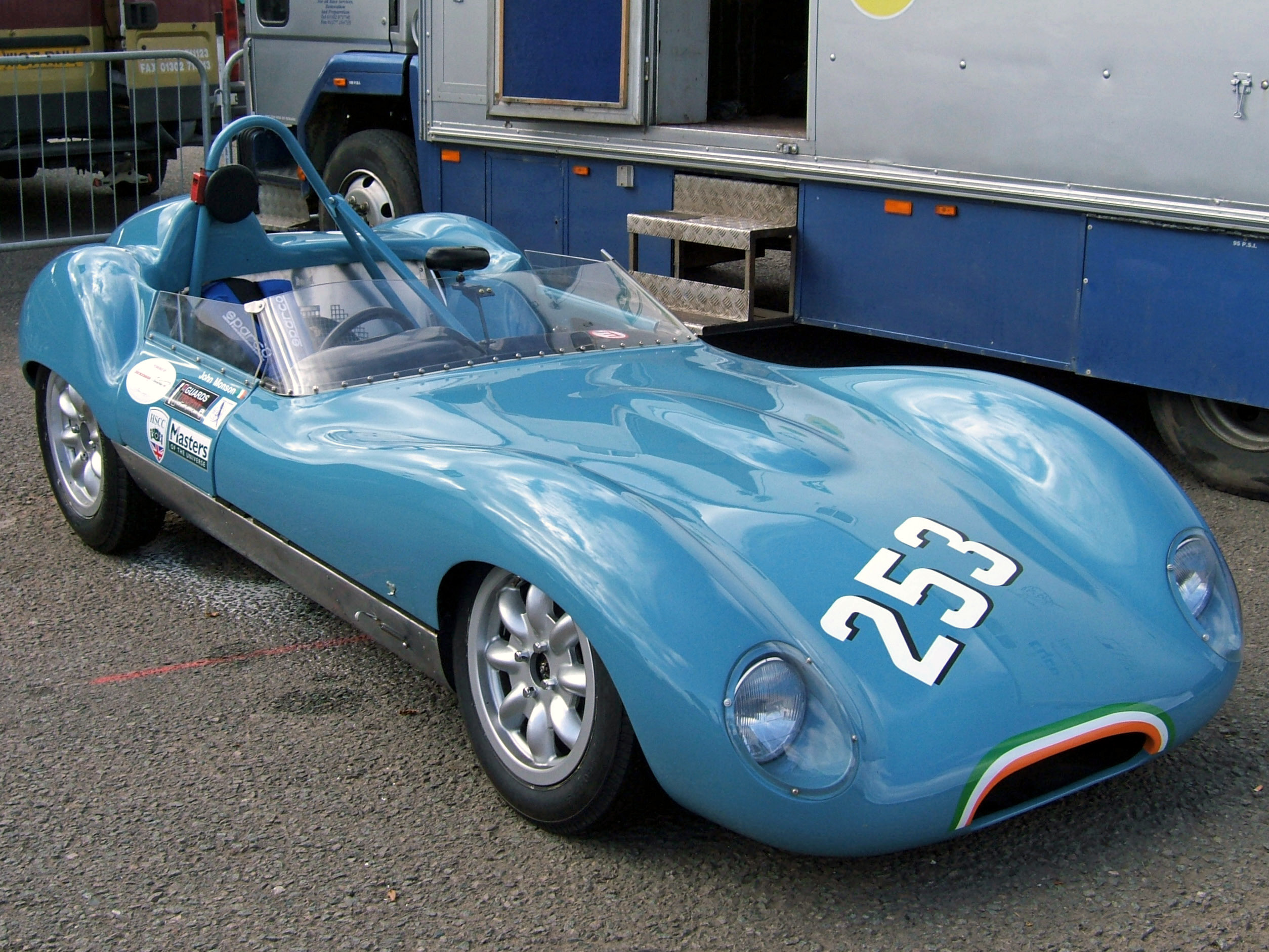 A Lola Mk1 sports car, waiting in the paddock of the VSCC SeeRed race meeting, Donington Park, September 2007.